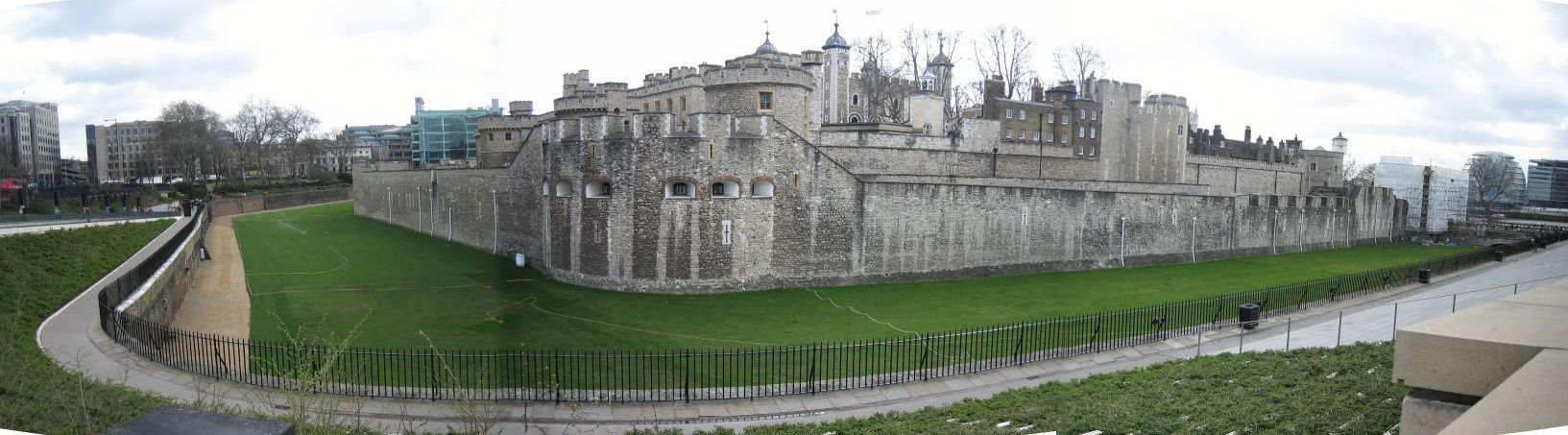 Stitched photo of the Tower of London